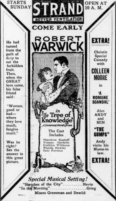 Newspaper advertisement for the American drama film The Tree of Knowledge (1920) with Robert Warwick, on page 9 of the March 27, 1920 Duluth Herald. At the bottom of the ad is a Garden of Eden scene, highlighting the prologue of the film where Yvonne Gardelle appears nude as Lilith to tempt Adam, who was played by dancer Theodore Kosloff.